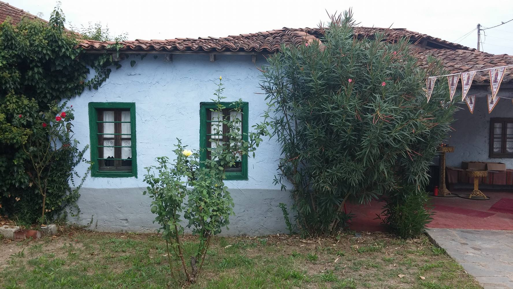 Zagiveri Saint Akylina's House